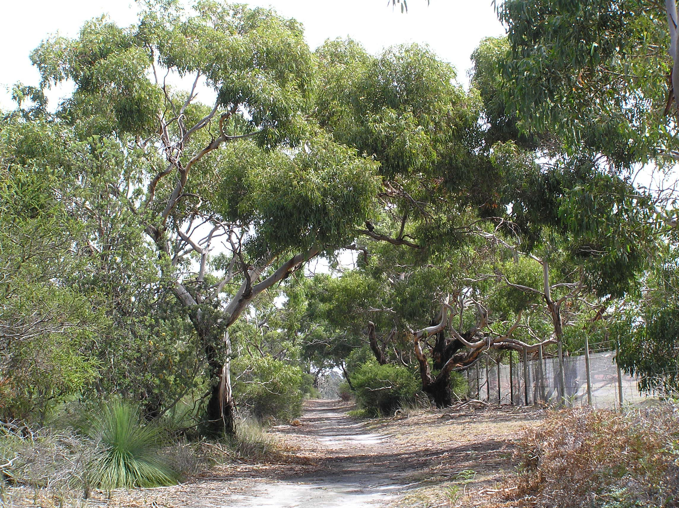 Looking westwards along the North Track in the Ocean Grove Nature Reserve. The OGNR is close to Ocean Grove on the Bellarine Peninsula, Victoria, Australia.